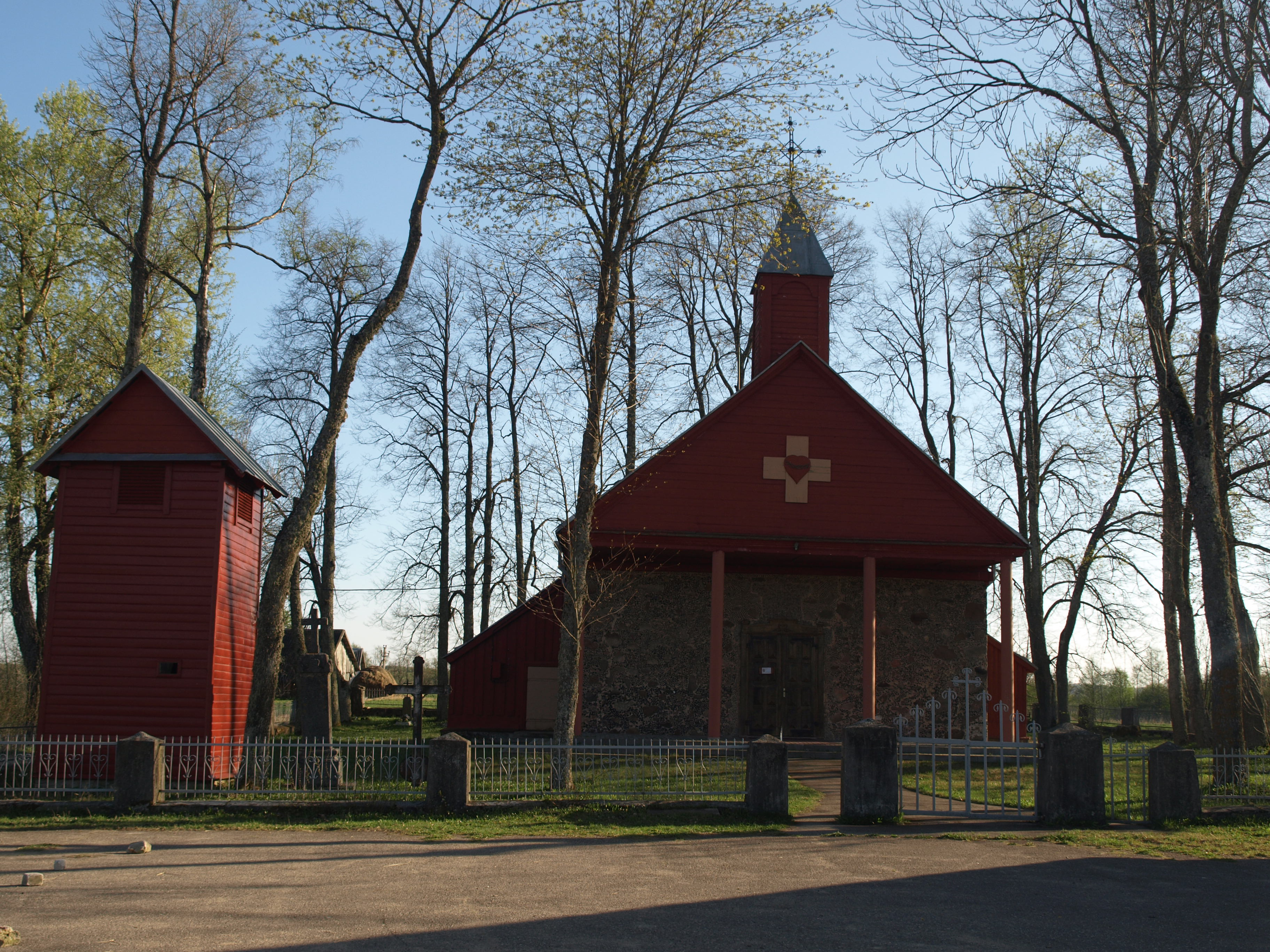 Paringys church